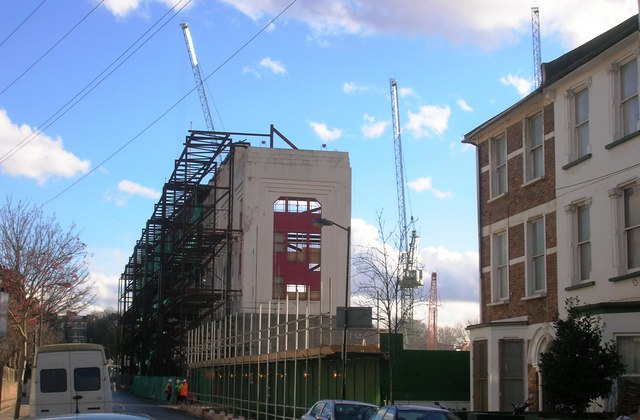 Avenell Road N5 - showing the last part of the old Highbury Stadium standing